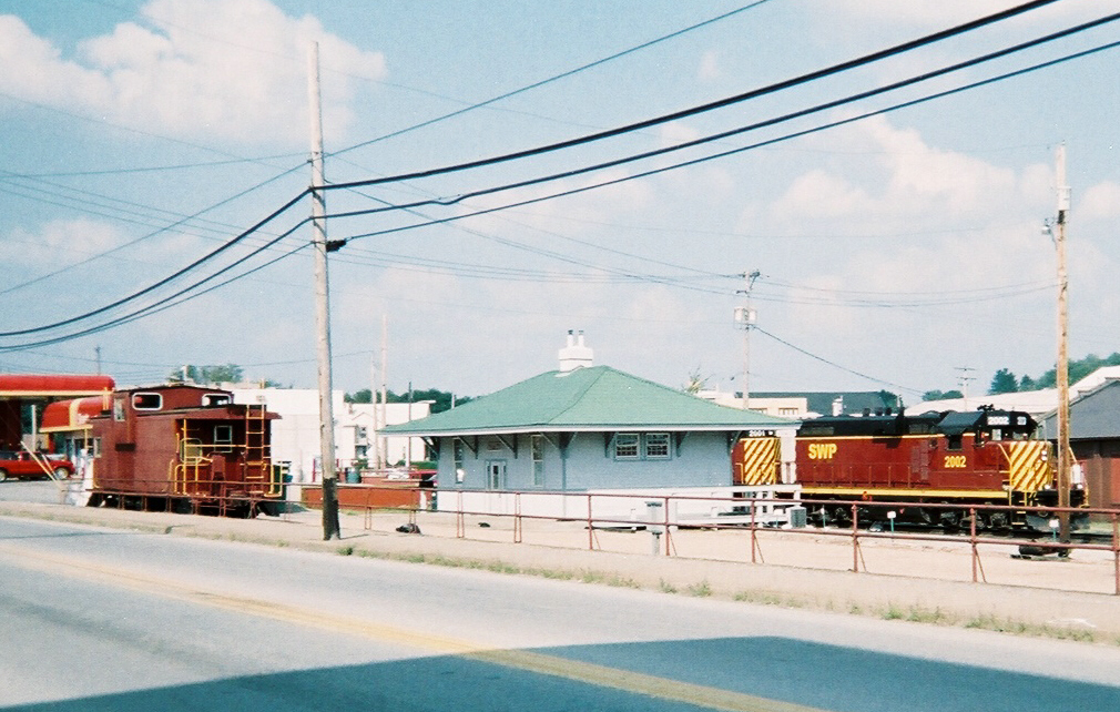 Train station in Scottdale, Pennsylvania (photo taken from South Broadway Street)